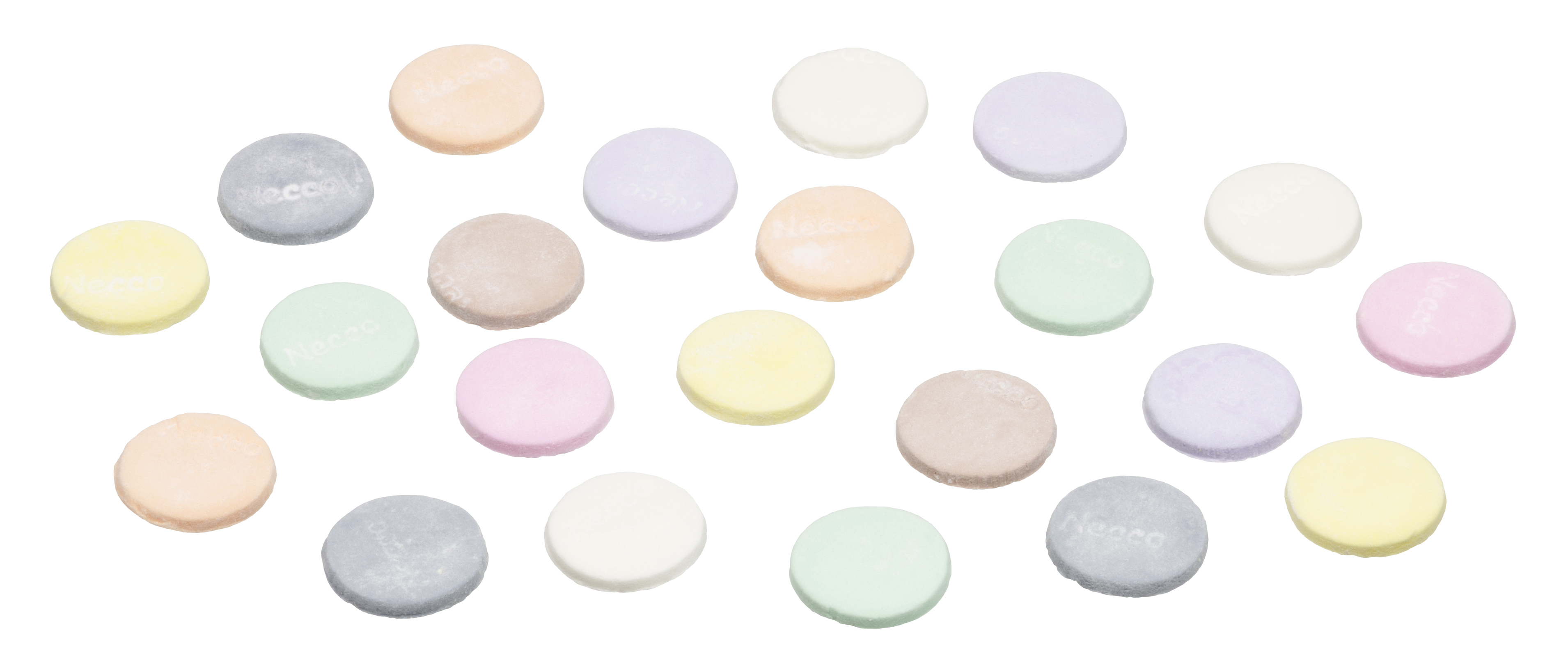 An array of Necco Wafers, an American candy produced by Necco.